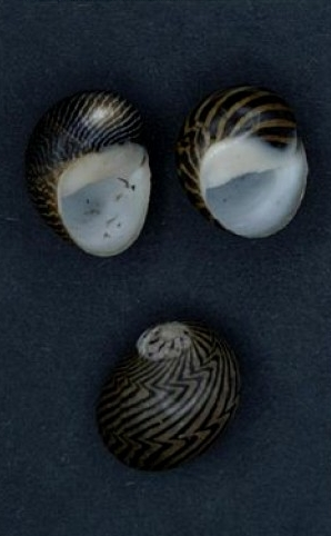 Three seashells of Neritina zigzag Lamarck, 1822 from the collection of Naturalis Biodiversity Center. Specimens from Philippines.